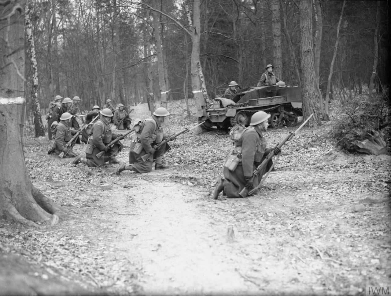 Dominion and Empire Forces in the United Kingdom 1939-45 Infantry and Bren gun carriers of the West Nova Scotia Regiment, 3rd Canadian Infantry Brigade, 1st Canadian Infantry Division, training at Aldershot, December 1939.